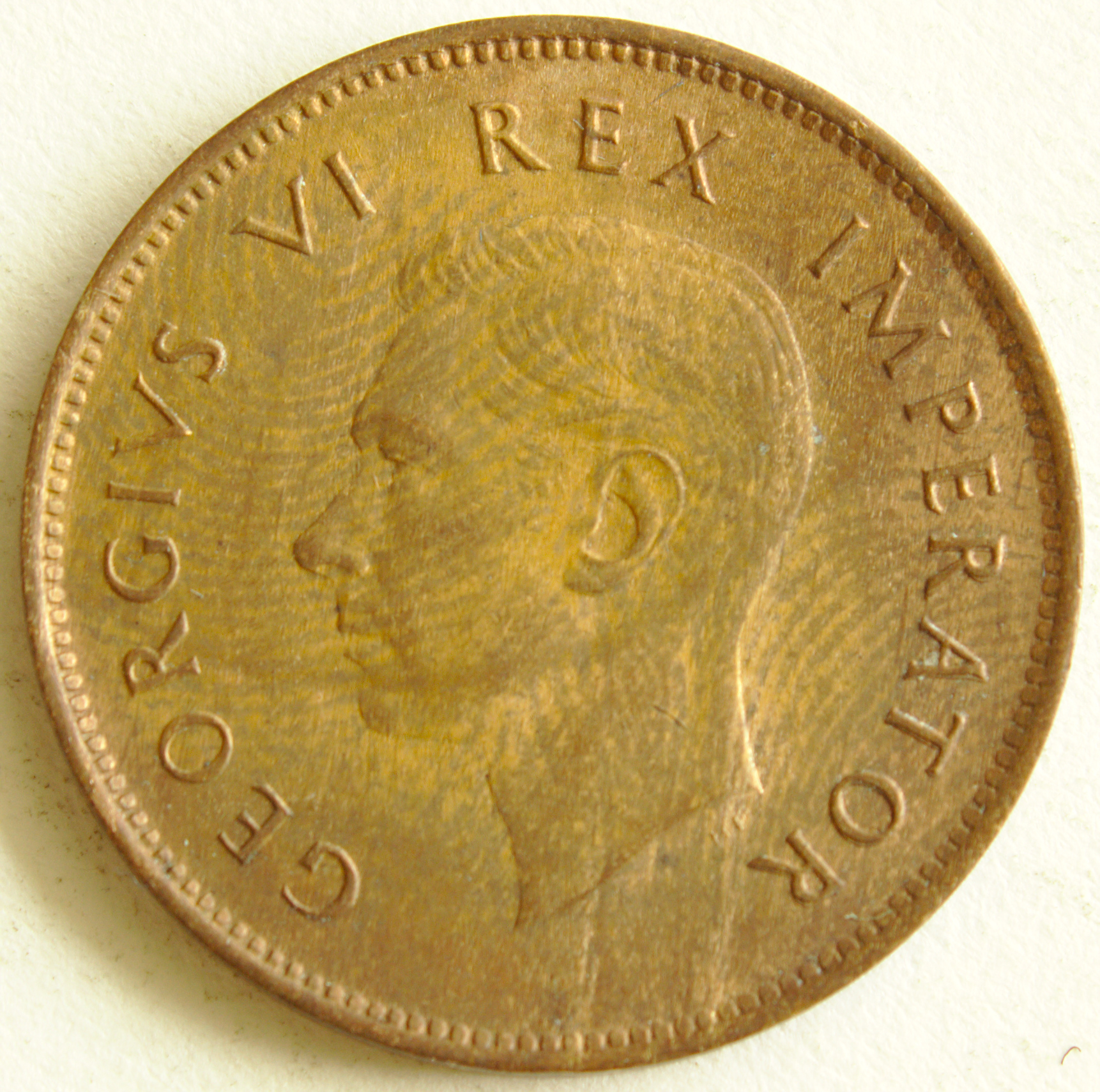 1943 South African farthing obverse